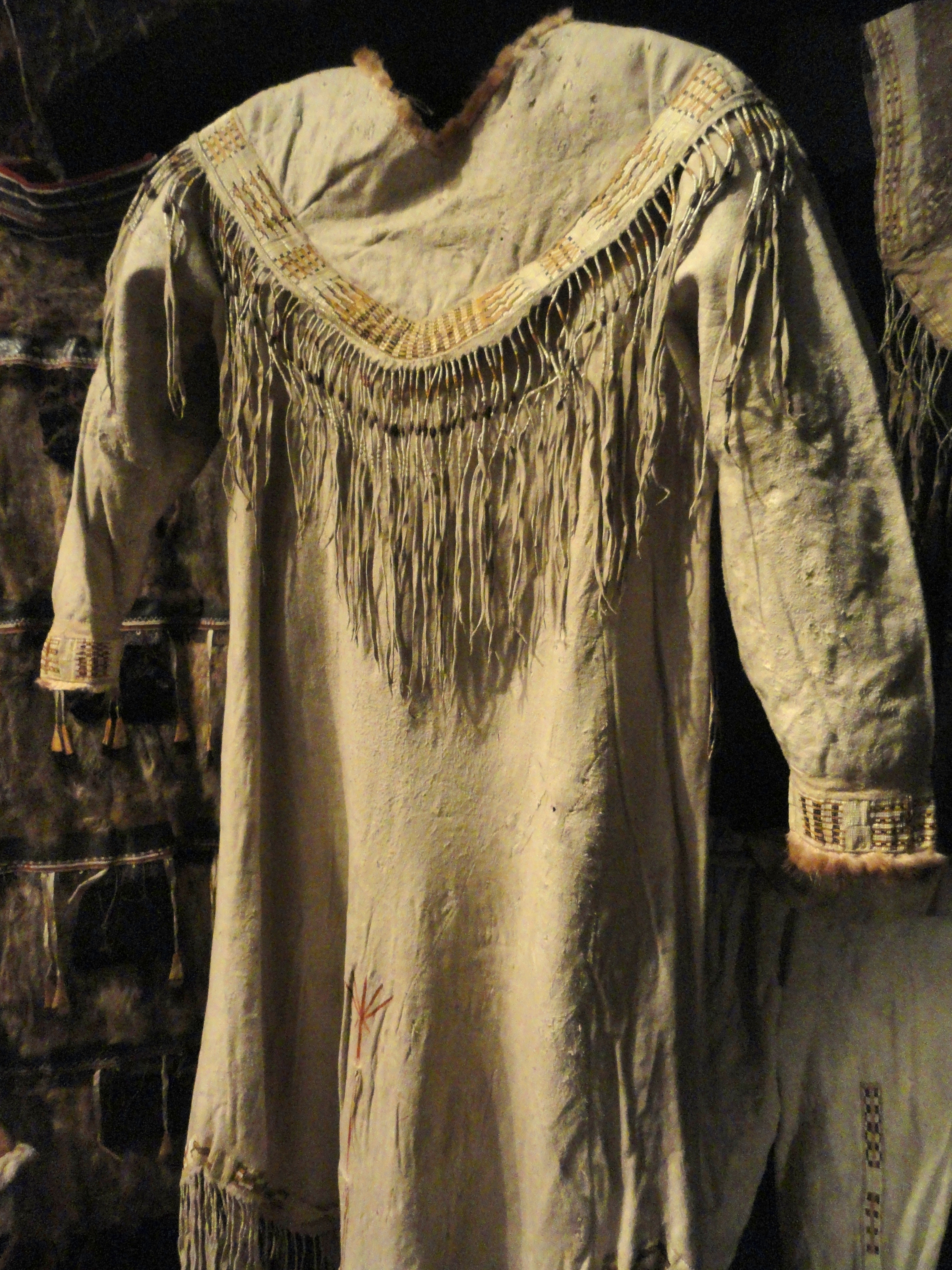 Exhibit in the Arvid Adolf Etholén collection, Museum of Cultures, Helsinki, Finland.